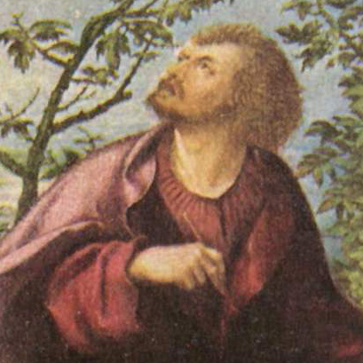 Center panel, detail: John the Evangelist on Patmos, half-portrait